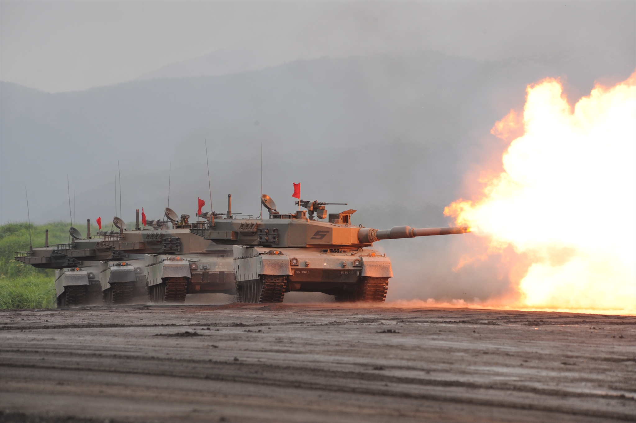 Title ９０式戦車20.8.23 #42 富士総合火力演習004_R.jpg Album 富士総合火力演習・そうかえん 後段演習・第一線部隊の攻撃（９０式戦車）